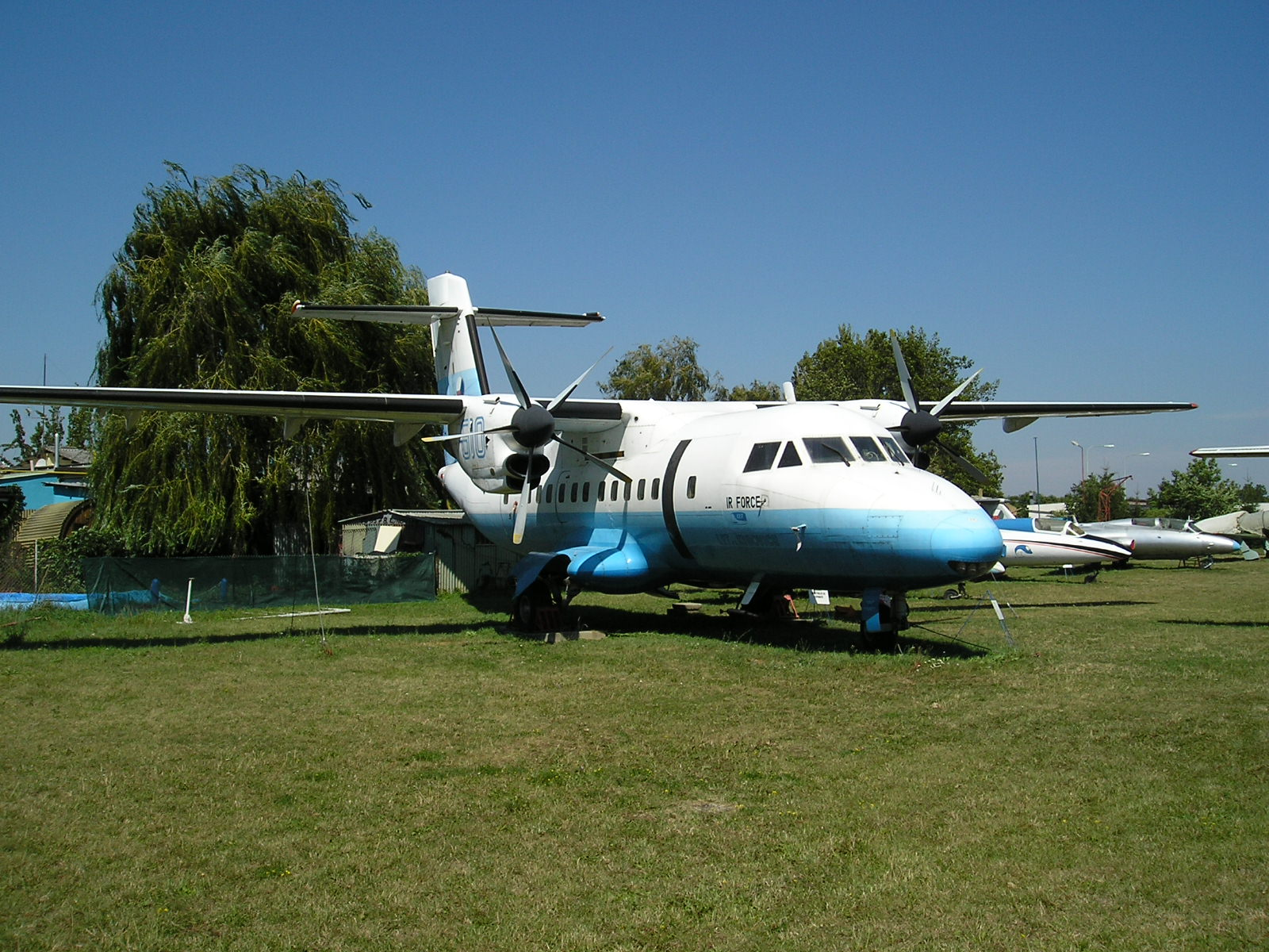 Let XL-610 M in Kunovice museum, Czech Republic, first flight 28.12.1988